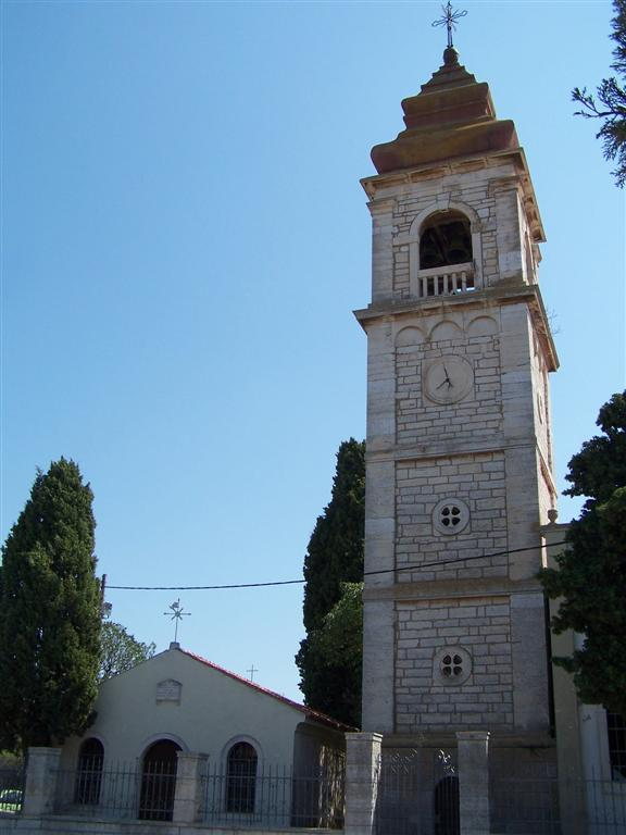 San Spirodine Church